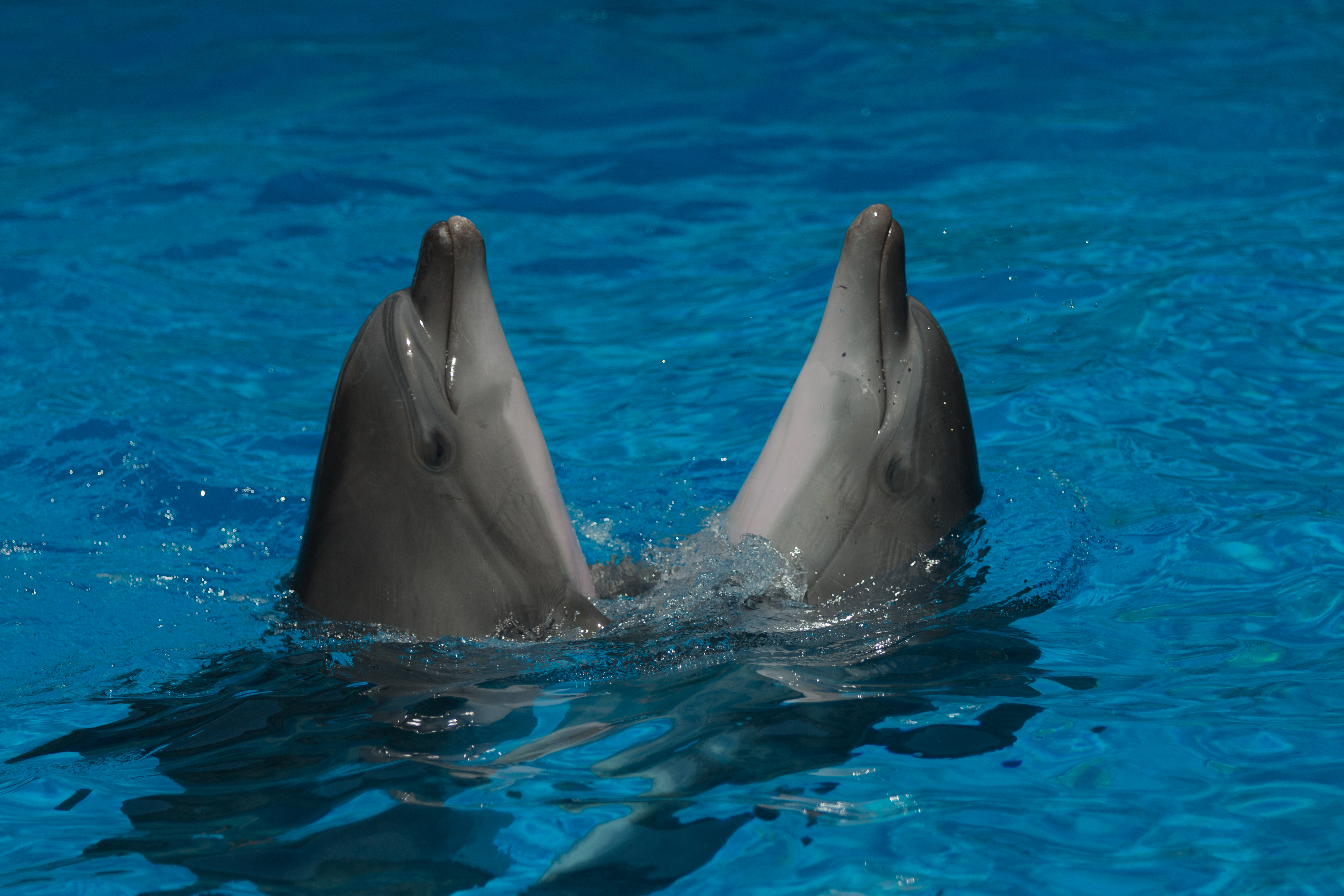 Two dancing dolphins in Anapa dolphinarium